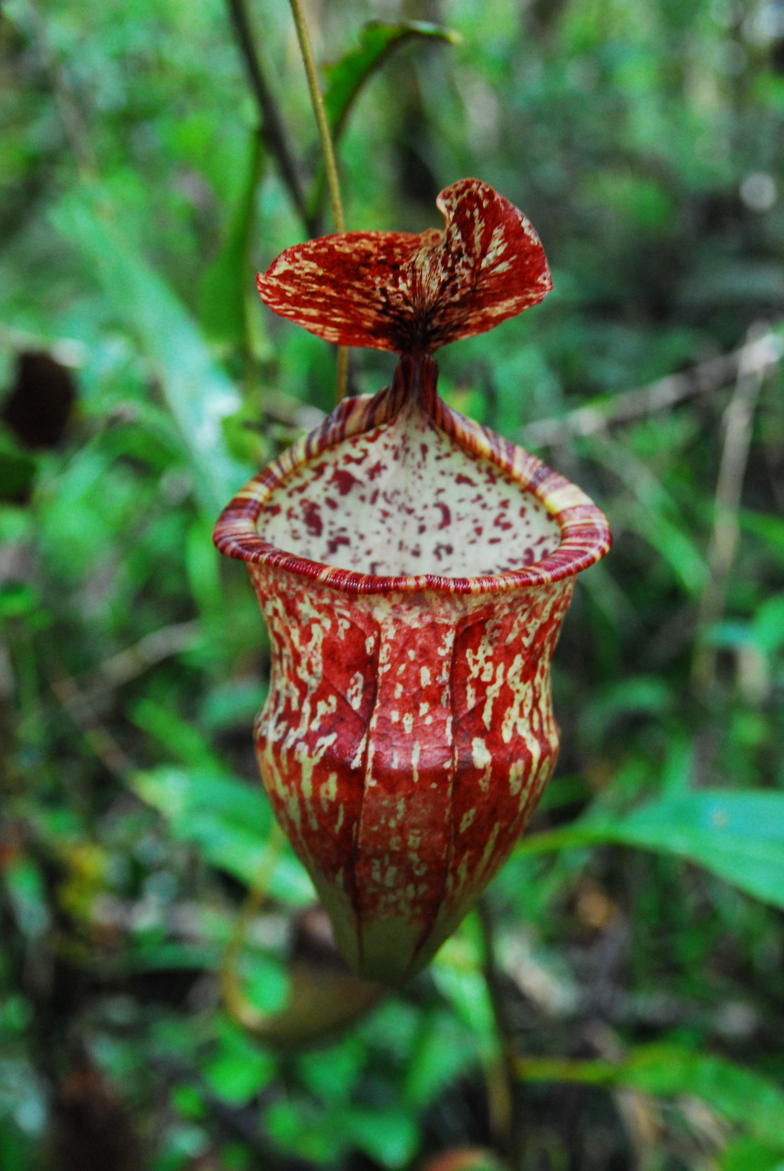 Nepenthes hamiguitanensis upper pitcher from Mount Hamiguitan, Mindanao, Philippines